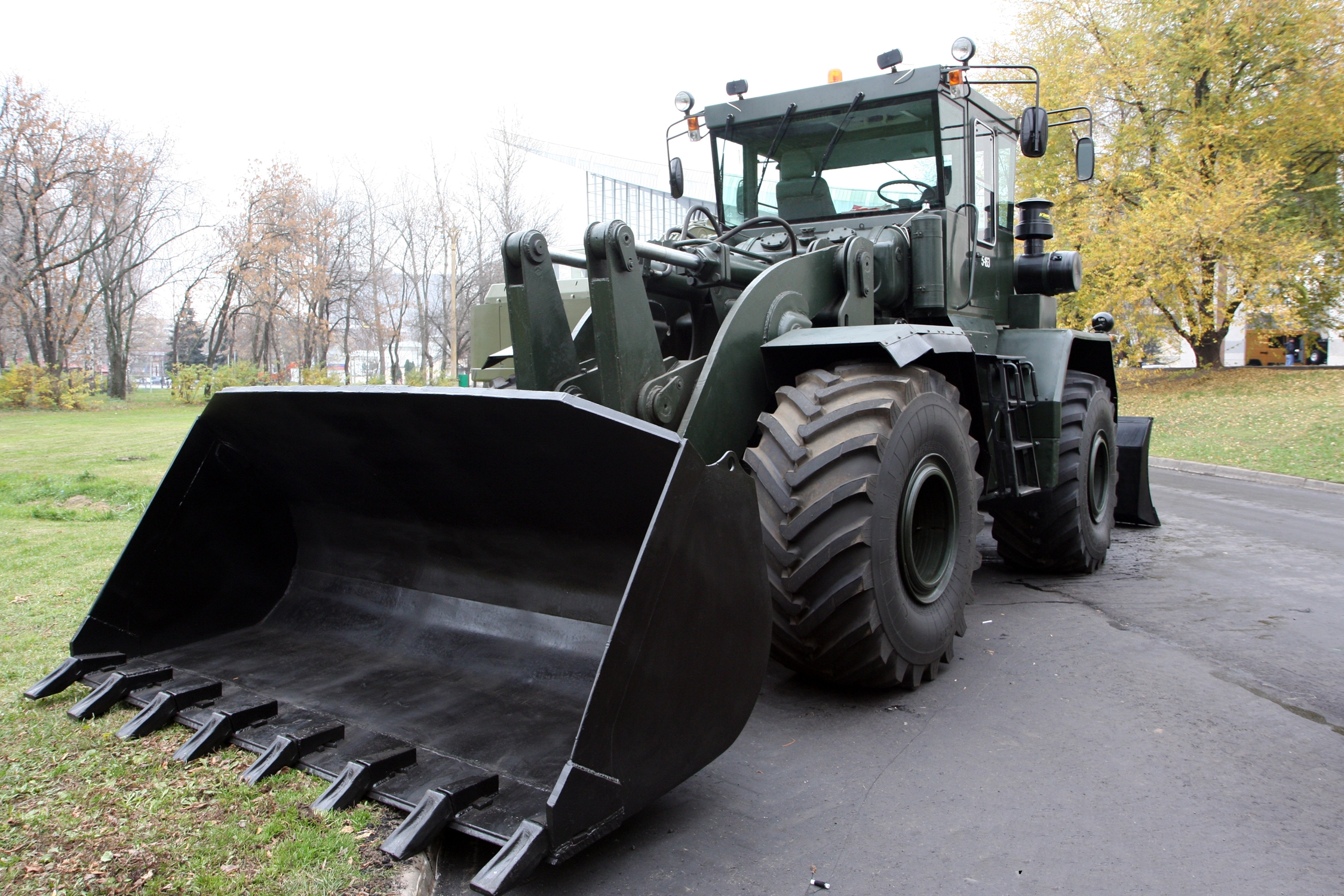 Road bulldozer K-702 MV-UDM-2.